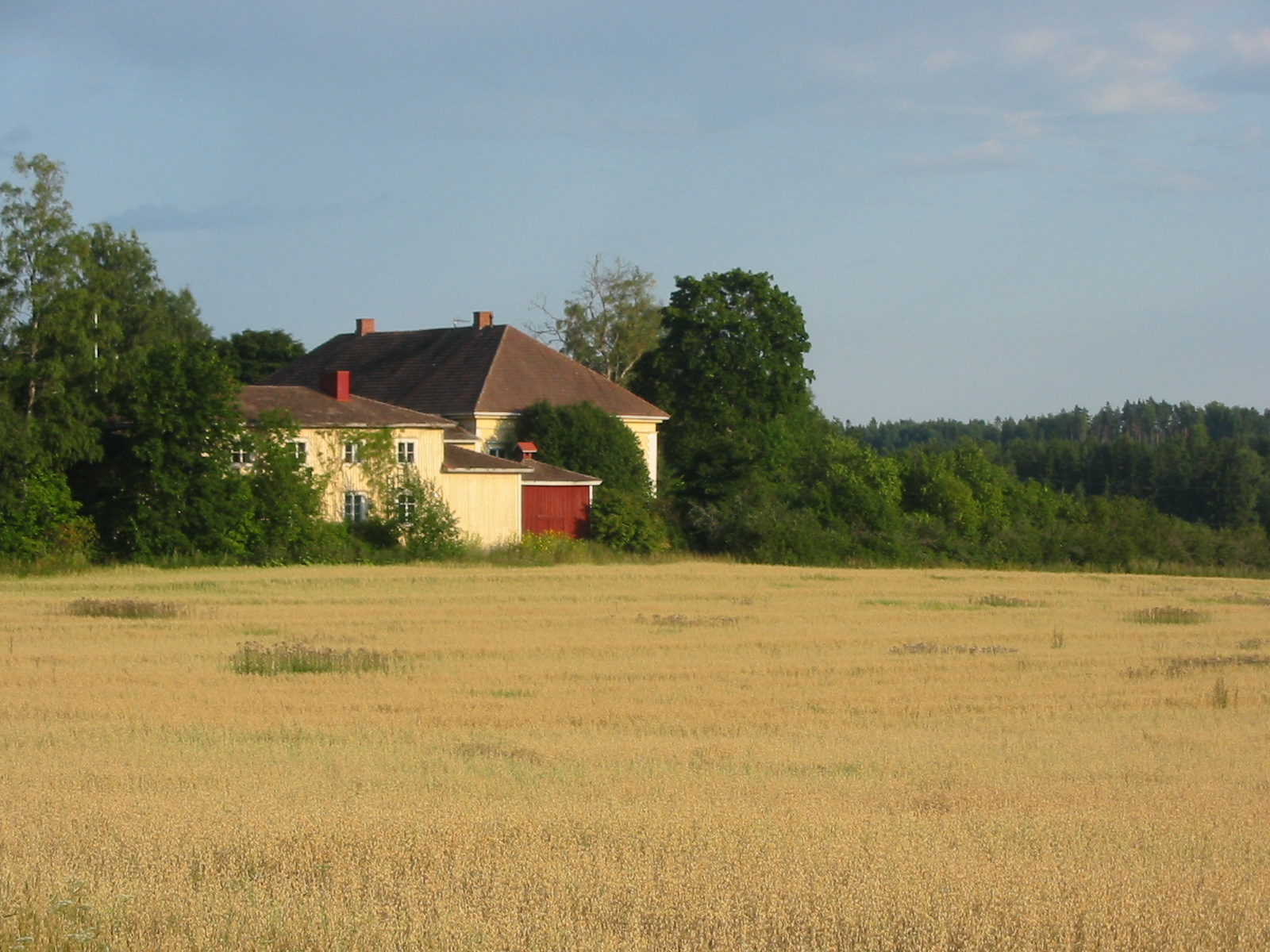 Hirsjärvi manor in Somero, Finland